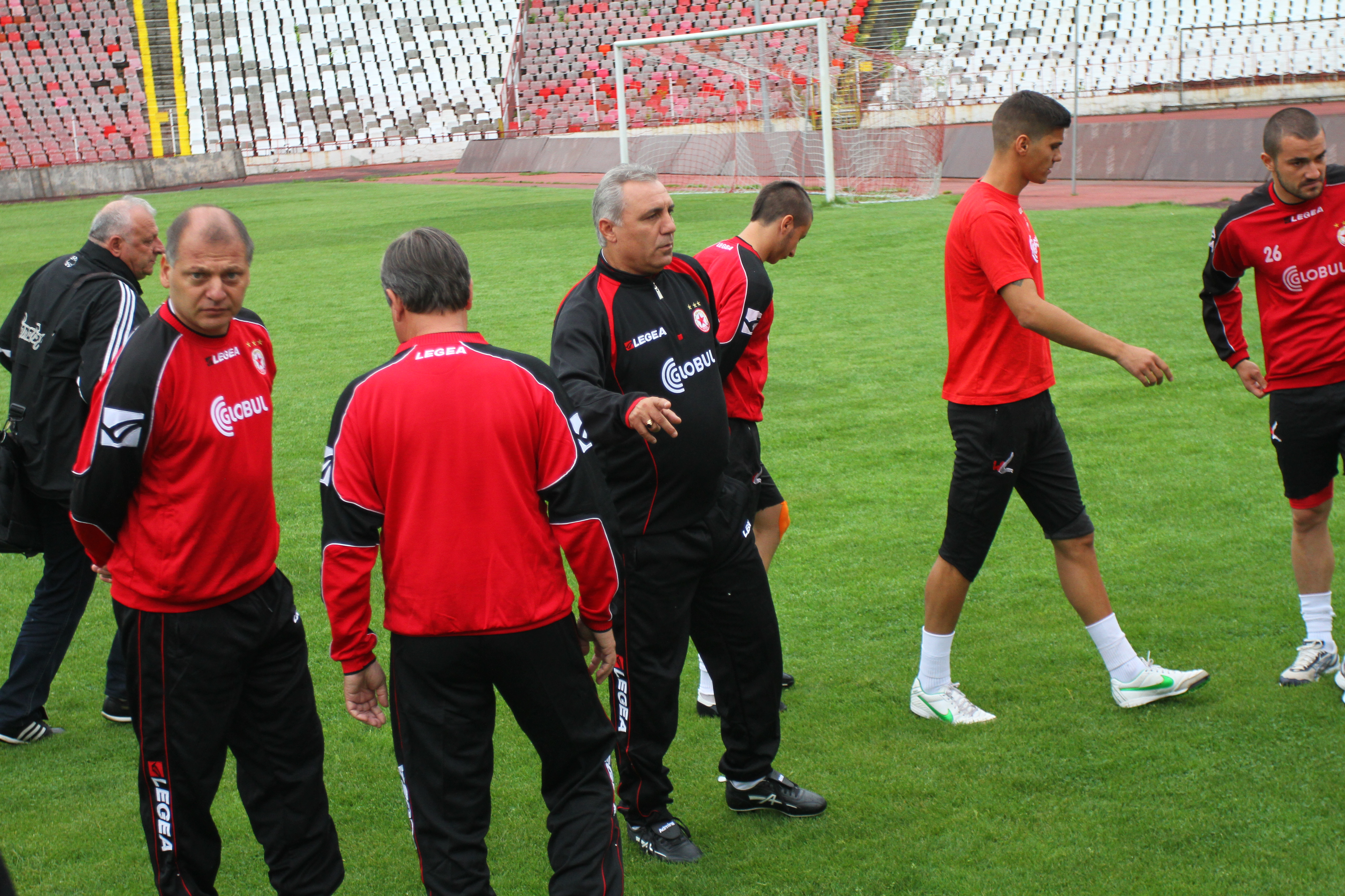 Hristo Stoichkov led the team of CSKA first training, June 12, 2013, Stadium "Bulgarian Army", Sofia